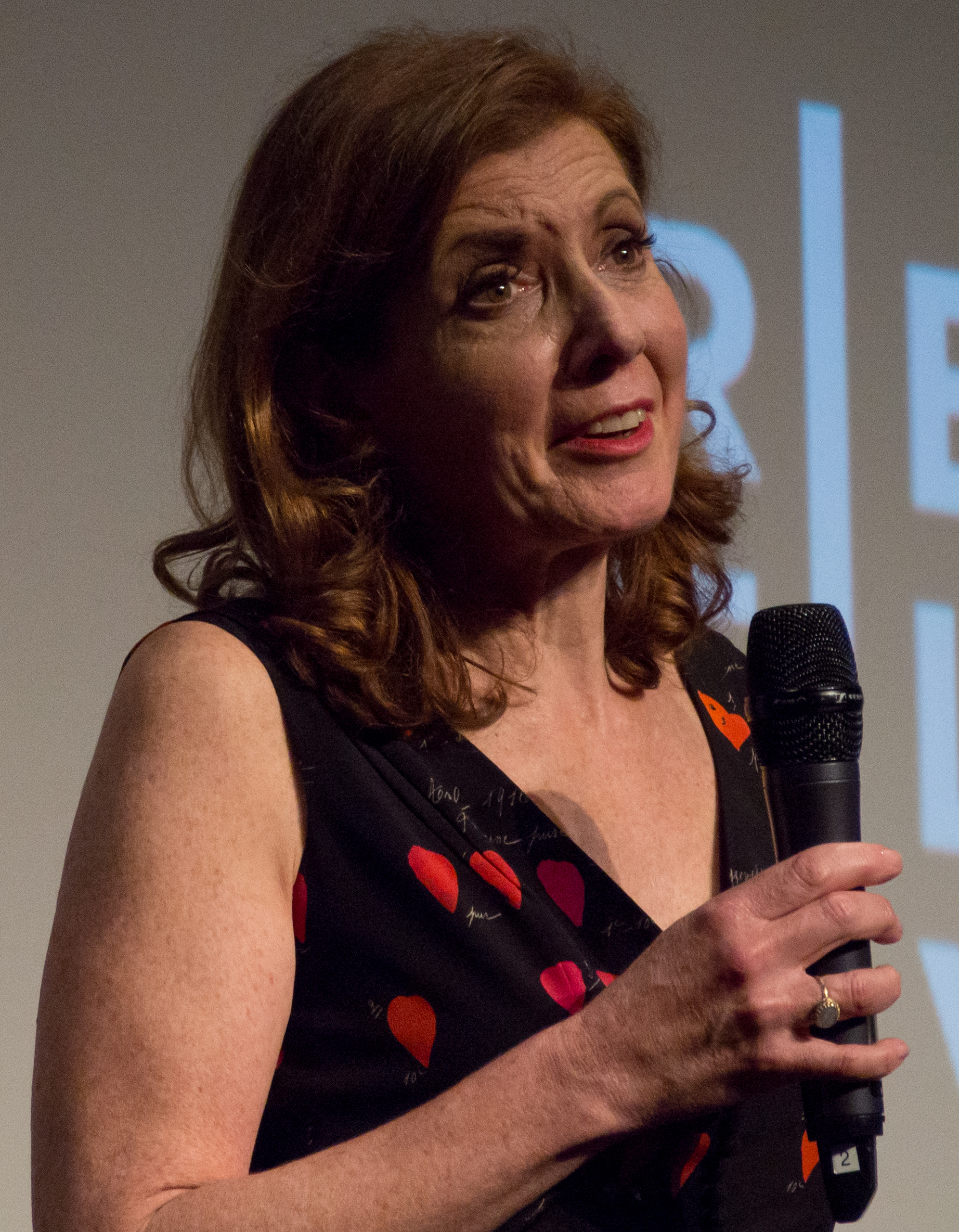 Susanna White during a discussion following the U.S. premiere of Woman Walks Ahead at the 2018 Tribeca Film Festival.